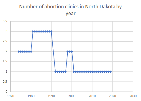 Number of abortion clinics in North Dakota by year. Data is from articles linked at